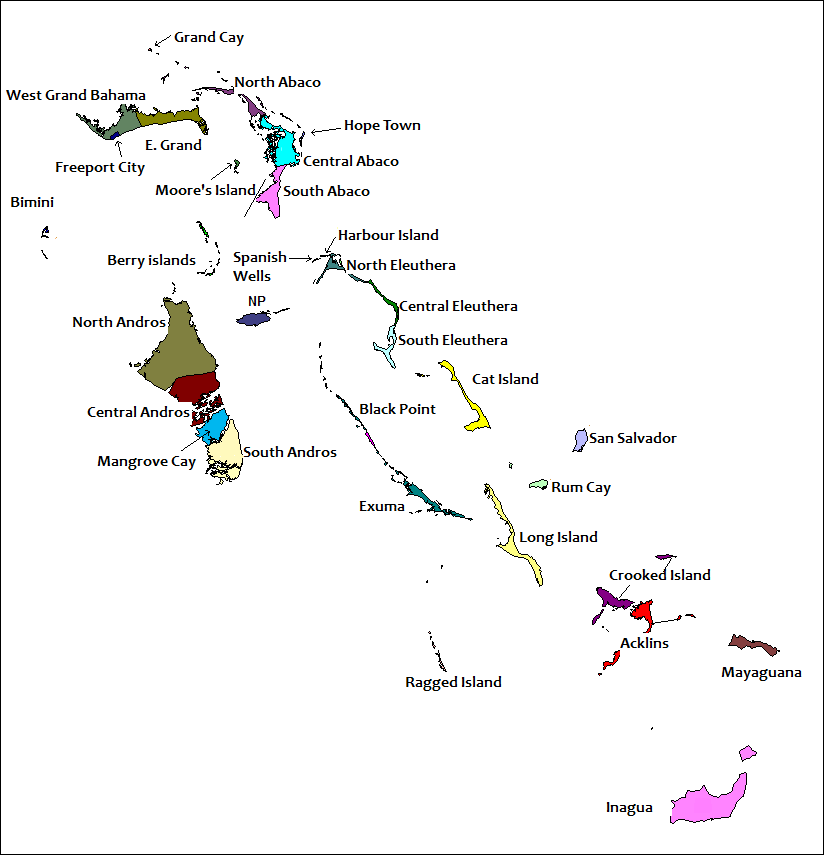 Created by Rarelibra for public domain use. Created using MapInfo Professional v7.5 and referencing various Bahamian map sources. Category:Maps of the Bahamas